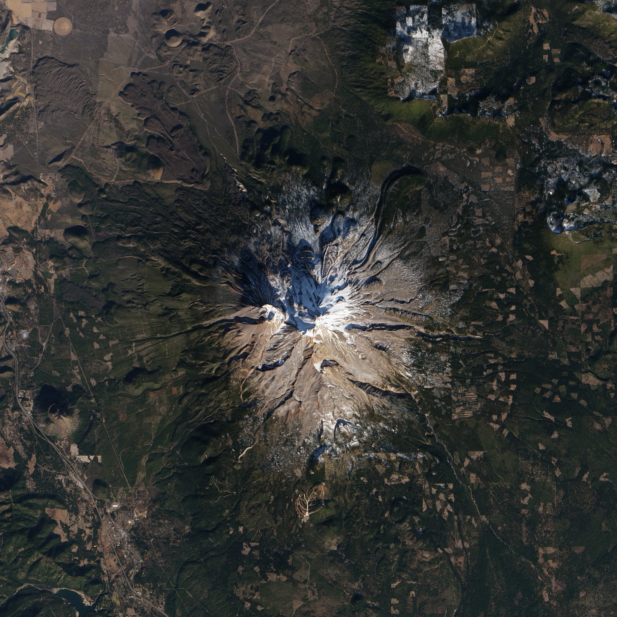 Satellite image of Mount Shasta in California, USA